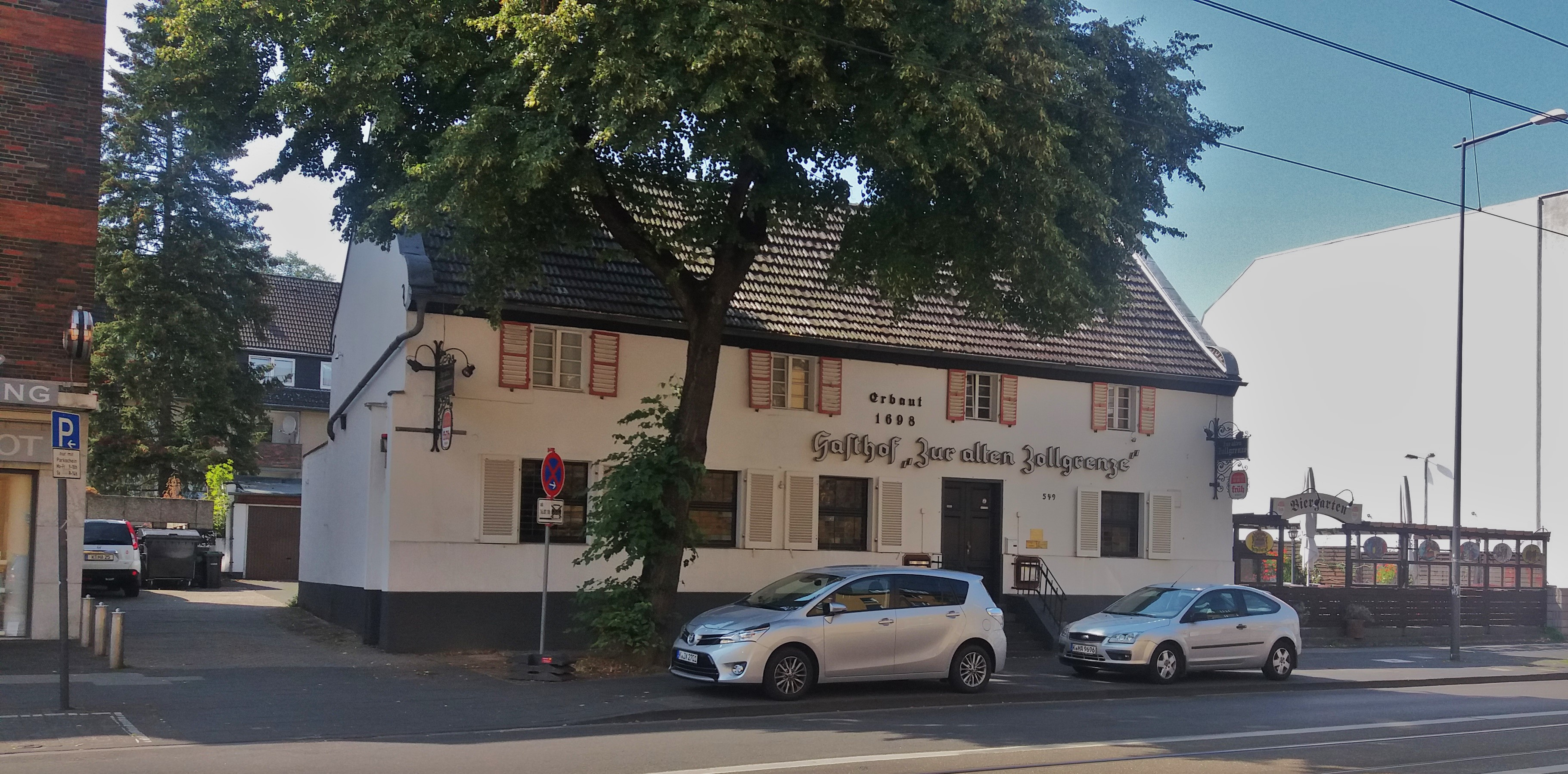 Cologne Neusser Straße (Alte Zollgrenze) (August 2018)